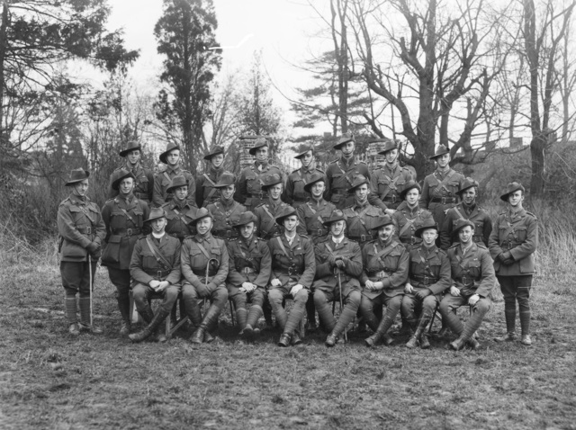 Officers from the Australian 39th Battalion, Belgium, January 1918